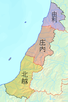 Yuri-Shōnai-Hokuetsu dialectal area